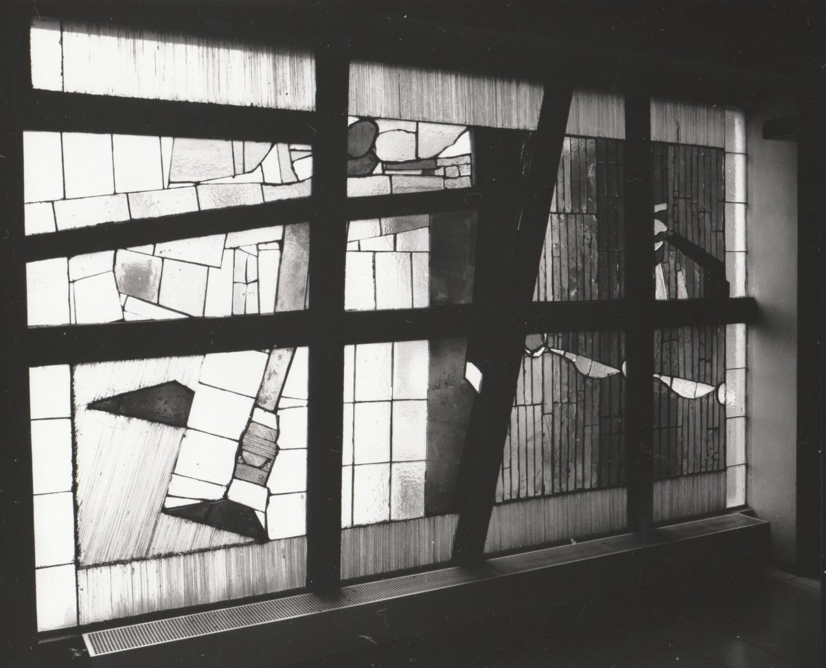 Foto in the staircase of TU München of the window composed by Fritz Harnest taken by Joseph Harnest